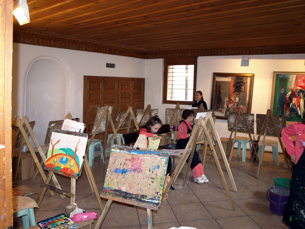 Art classes in Encho Pironkov Gallery, Plovdiv, Bulgaria